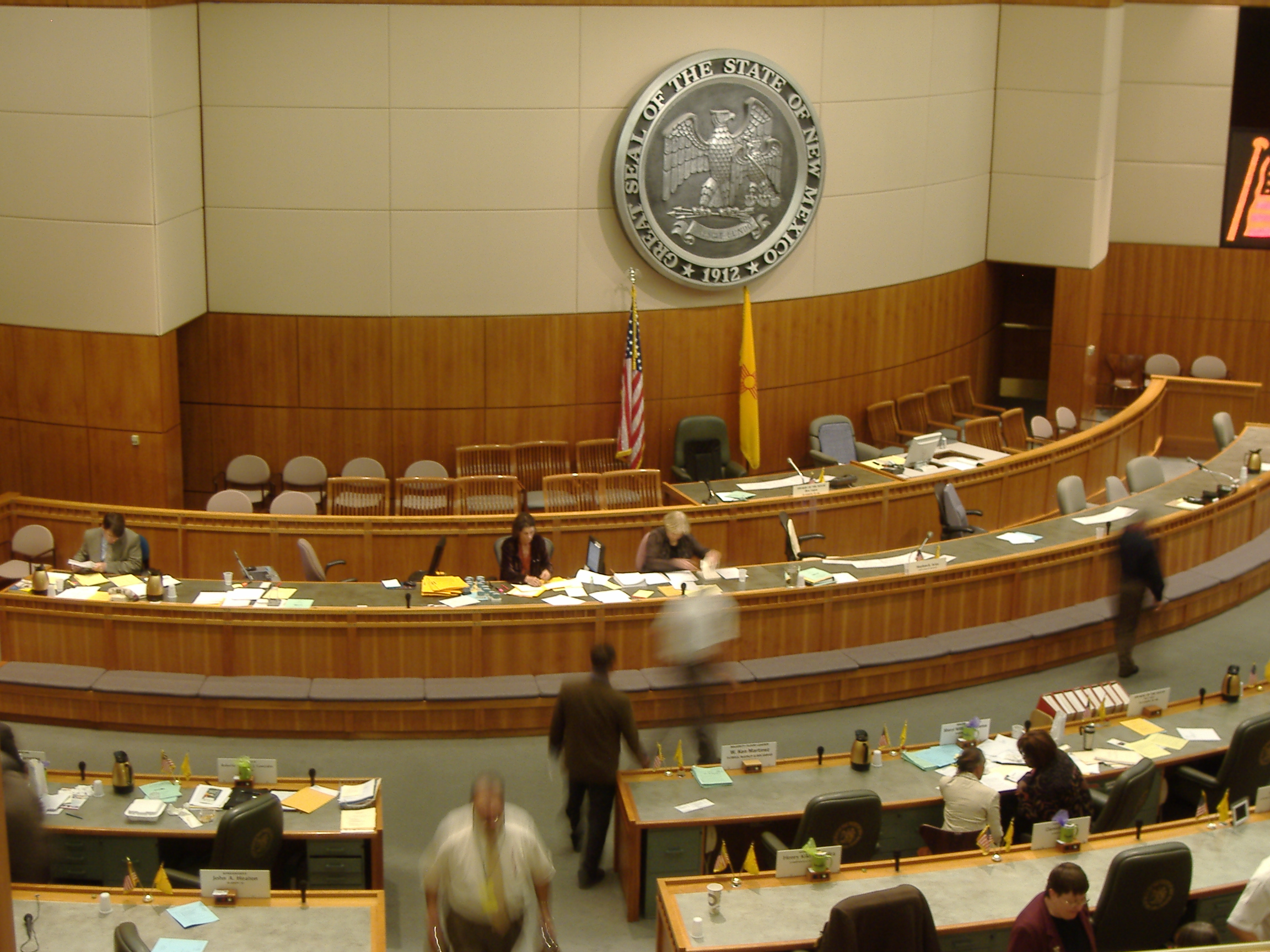 The interior of the New Mexico State Capitol showing the Senate before in session.